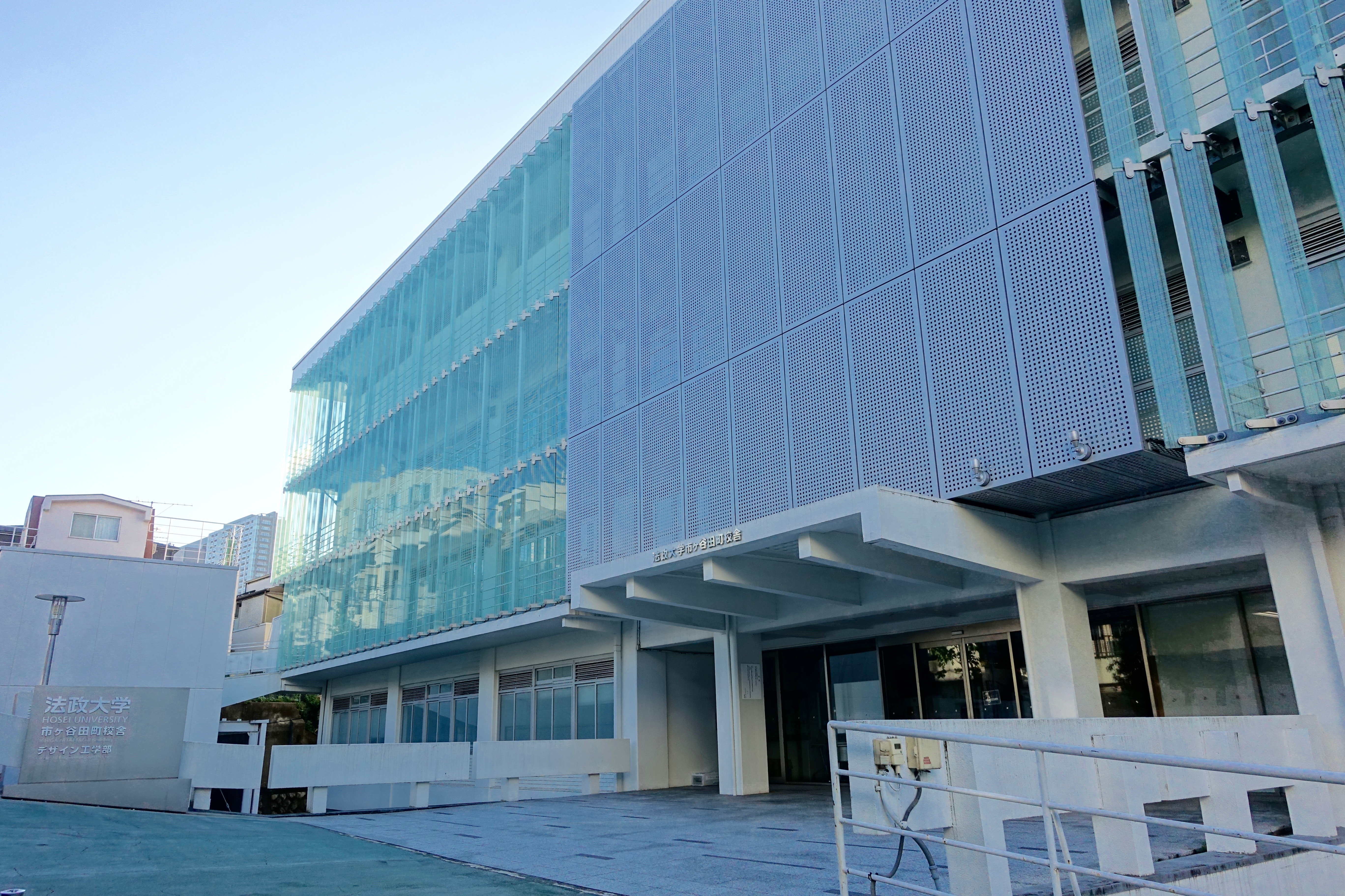 Ichigayatamachi Building - Hosei University - Shinjuku, Tokyo, Japan.